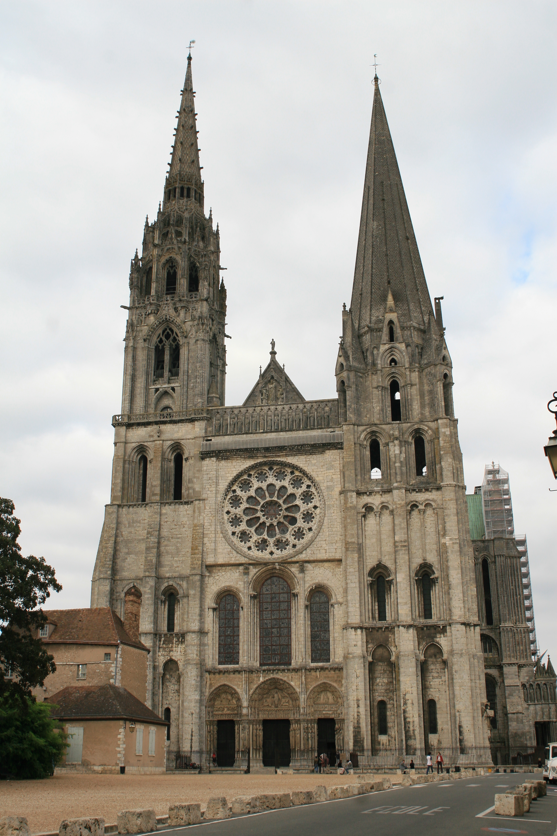 Chartres, France Royal portal of Chartres Cathedral.